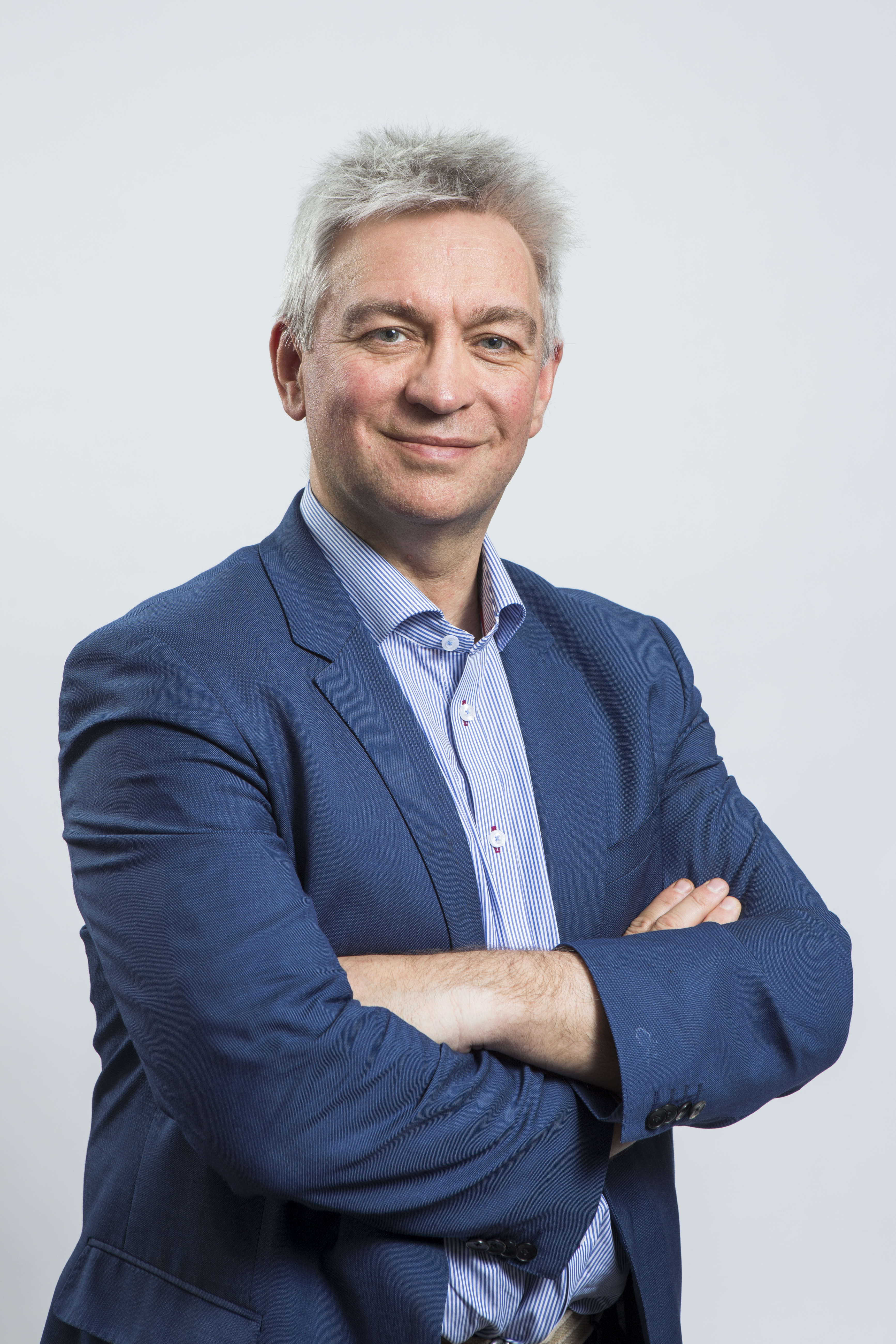 André Skjelstad Foto: Jo Straube